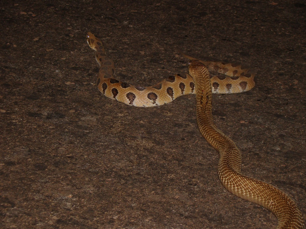 ¶Indian cobra making a feast of what seems to be a viper.